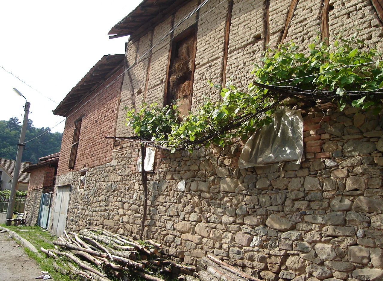 A house in village Mirkovo, Sofia District, Bulgaria